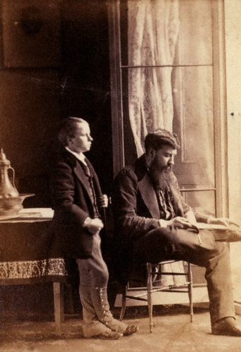 Portrait of French photographer Camille Silvy with a boy, 1859. Photograph by Silvy. Albumen print. 3 1/4 in. x 2 1/4 in. Courtesy of the National Portrait Gallery, London.